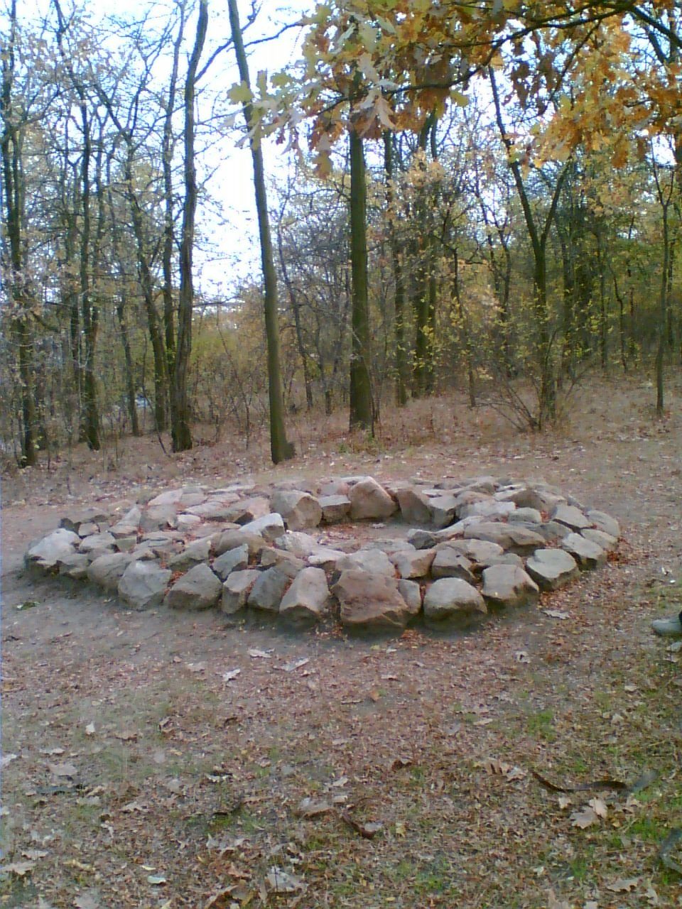 A reconstructed Neolithic altar at the Khortitsa island on Dnieper river.